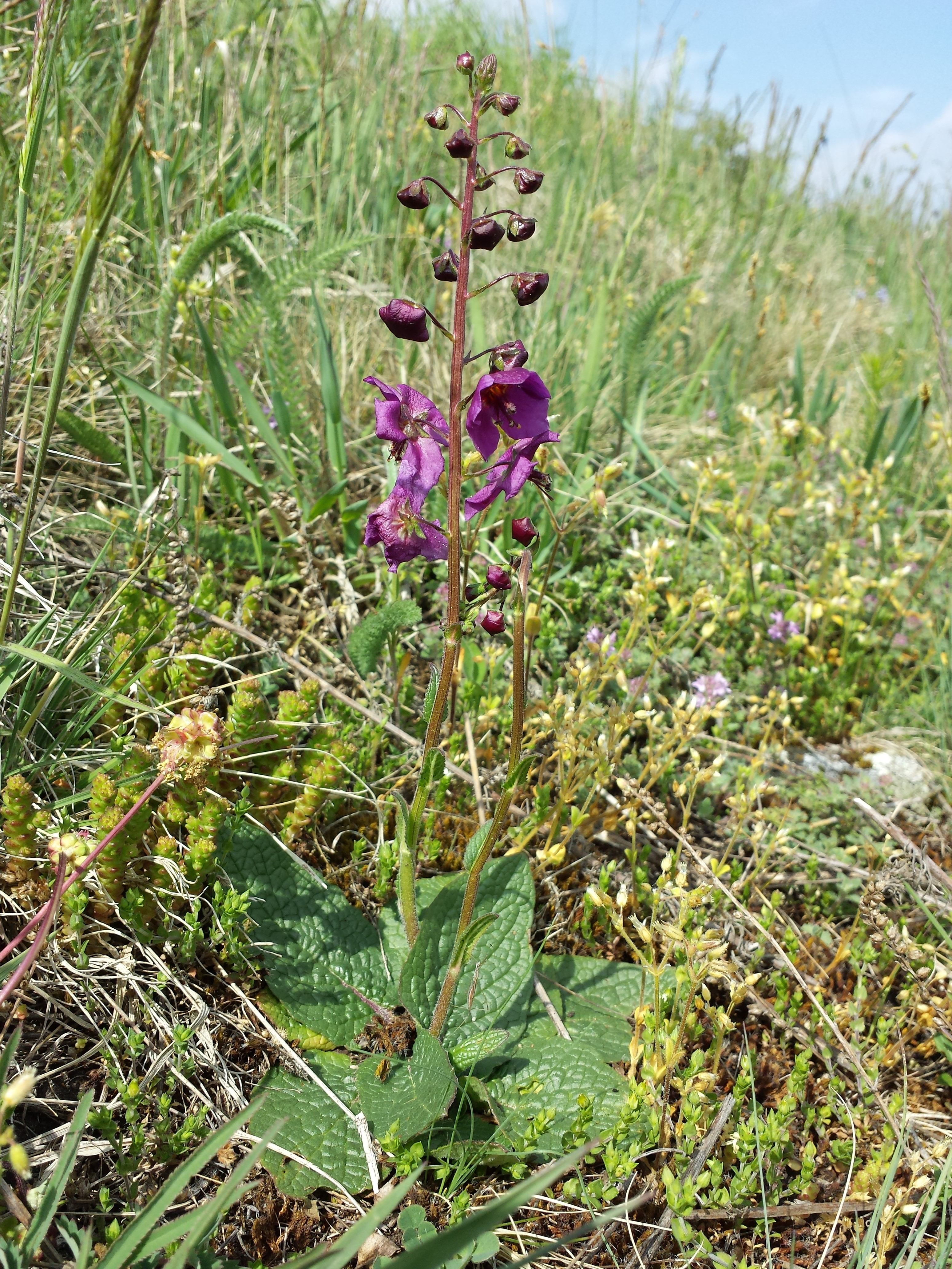 Habitus Taxonym: Verbascum phoeniceum ss Fischer et al. EfÖLS 2008 ISBN 978-3-85474-187-9 Location: Tabulová hora near Klentnice, Jihomoravský kraj, Czech Republic - ca. 450 m a.s.l. Habitat: dry grassland on lime stone